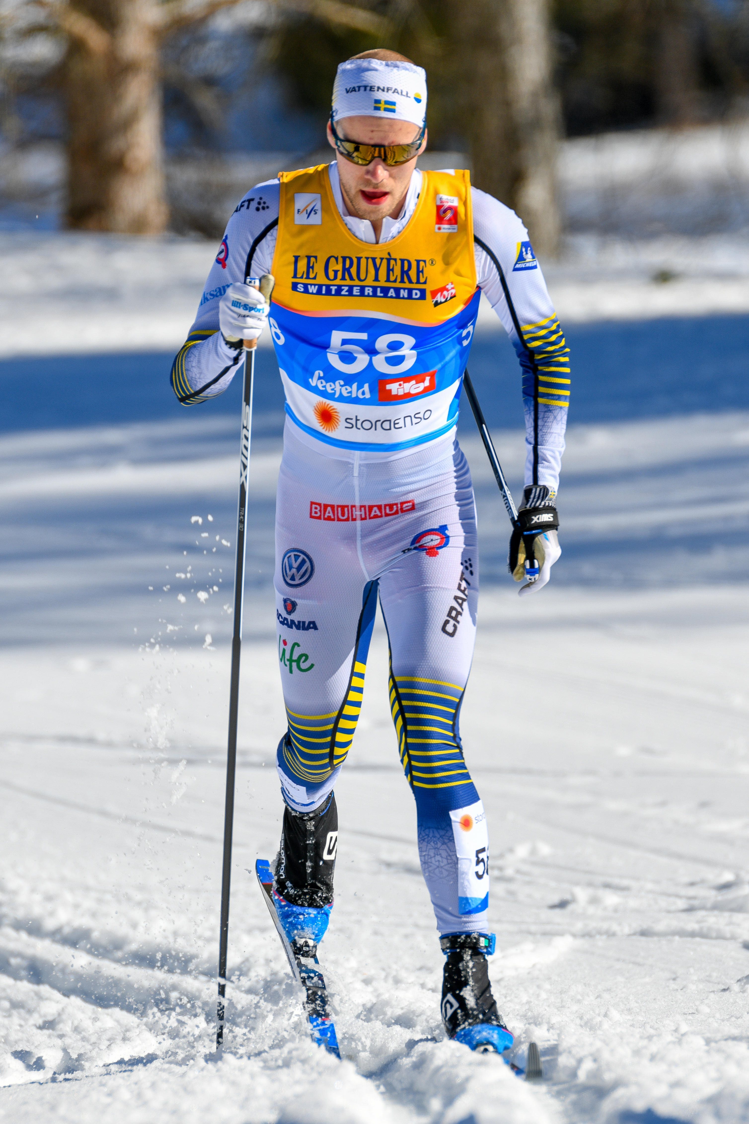 FIS Nordic Wolrd Ski Championships Seefeld 2019 - Men 15km Interval Start Classic. Picture shows Viktor Thorn (SWE).